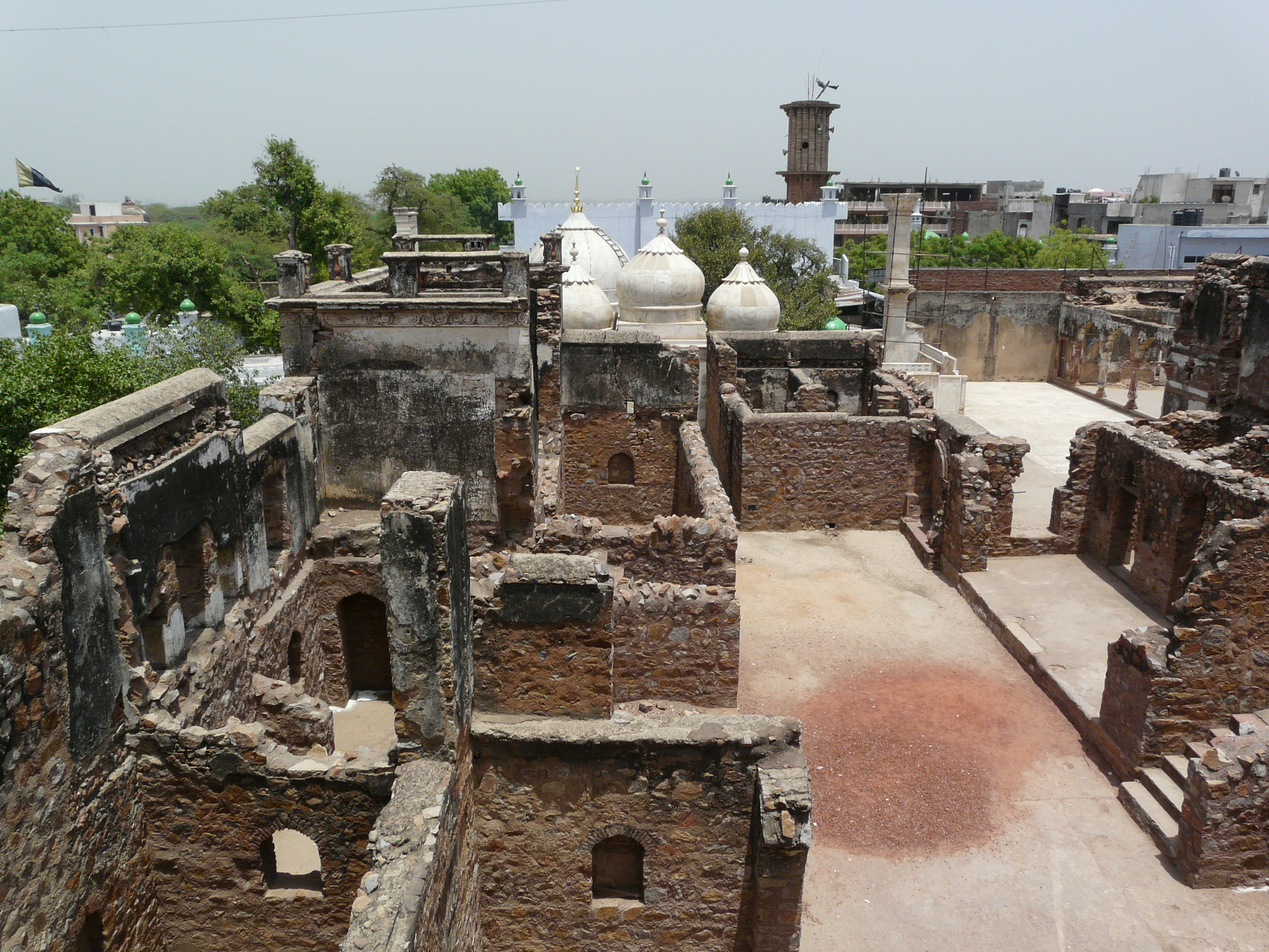 View of Zafar Mahal and Qutubuddin Kaki's mazar in background